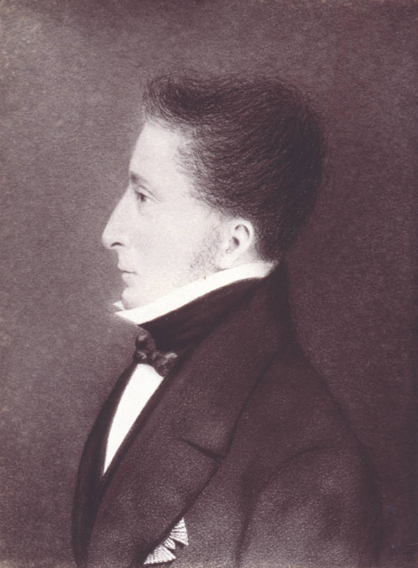 This image shows a photograph of Sir John Eardley Wilmot, taken prior to 1896. Under Australian law, all photographs taken in Australia before 1955 are in the public domain. This image is in the public domain under both Australian copyright law and US copyright law. Accessed from